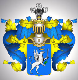 Coat of Arms of Protasyevy family